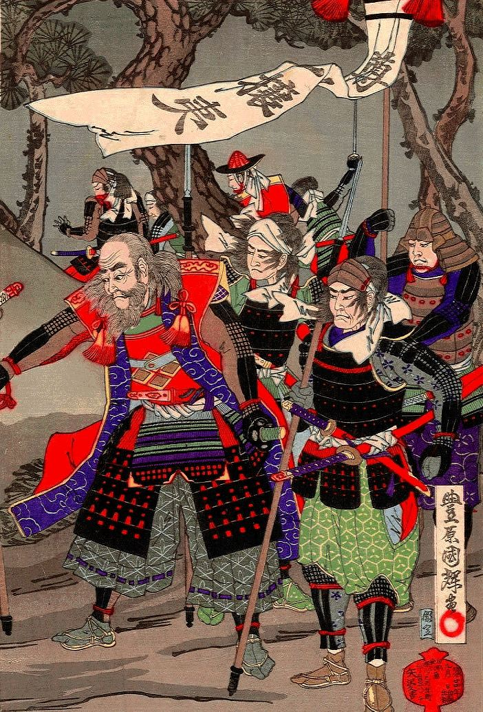 Mito_rebellion samurai_under_Sonno_Joi_banner